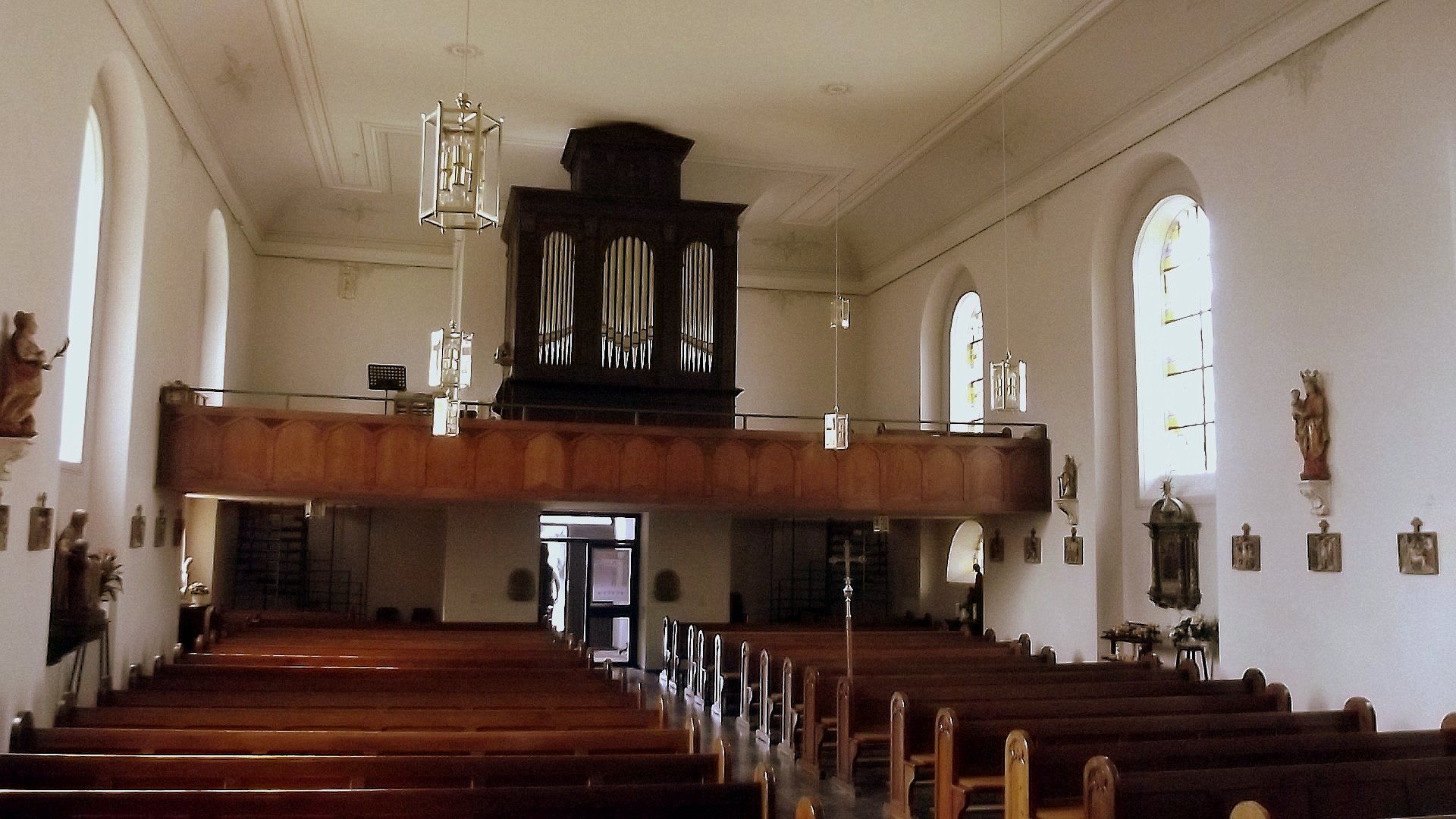 Interior of the roman catholic church in Nennig, Saarland, Germany